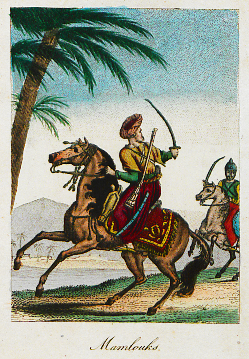 Antoine-Laurent Castellan. Moeurs, usages, costumes des Othomans, et abrégé de leur histoire; par A. L. Castellan, auteur de Lettres sur la Morée et sur Constantinople, Paris, Nepveu, 1812.